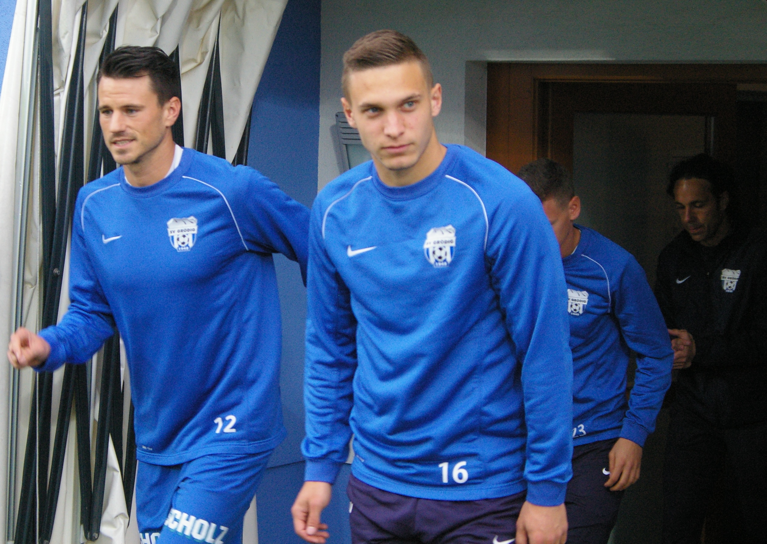 league match Austrian Bundesliga